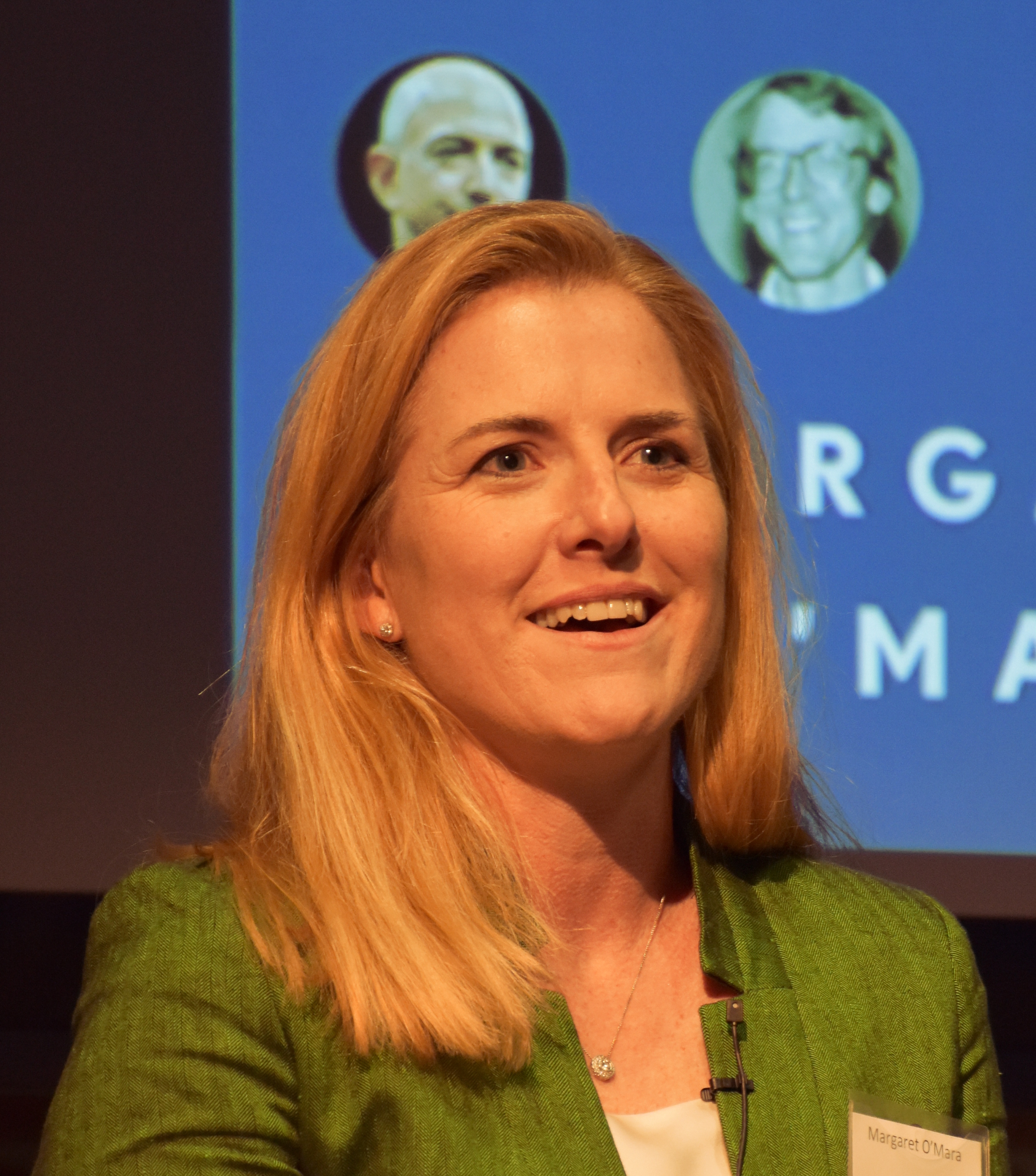 US scholar and author Margaret O'Mara talking about her book "The Code: Silicon Valley and the Remaking of America" at an event in San Francisco